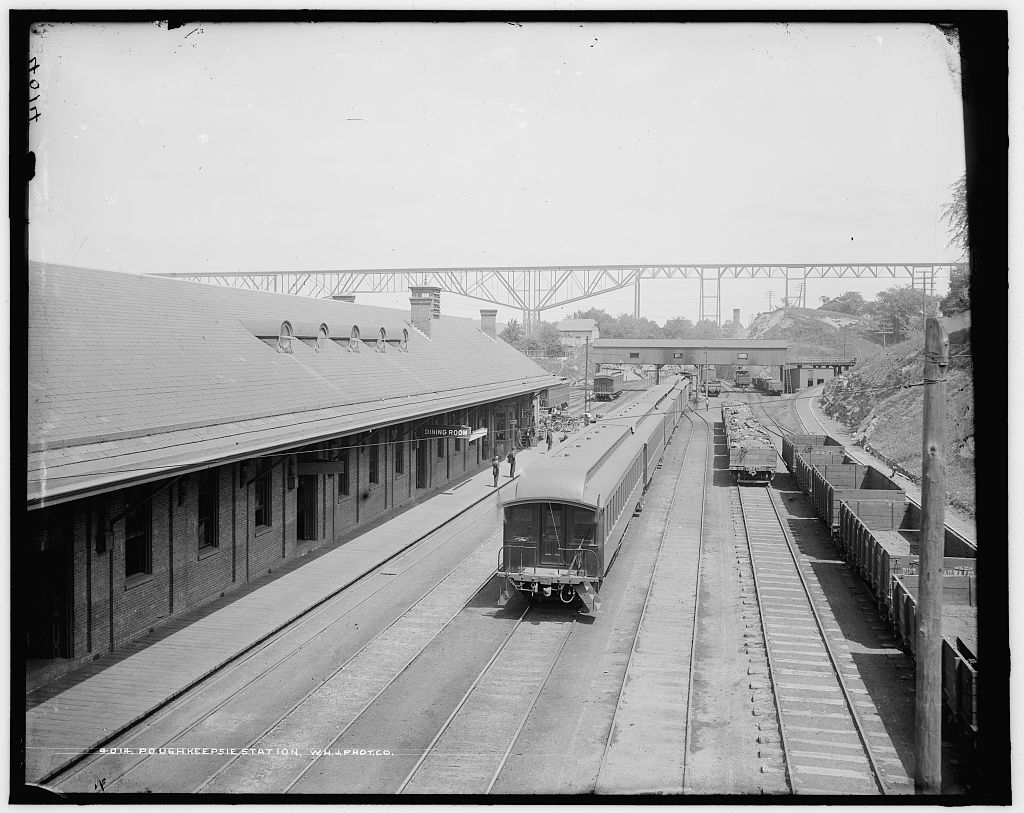 Poughkeepsie Station btwn 1880 and 1895